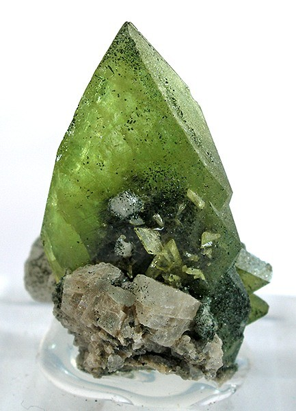 Titanite Locality: Haramosh Mts., Skardu District, Baltistan, Northern Areas, Pakistan (Locality at ) Size: 3.2 x 2.3 x 2.0 cm. A sharp and superb, olive-green titanite spear point vertically and aesthetically set in matrix from Pakistan. This beauty has classic titanite form, translucency and color. Highly representative of the species and locality.